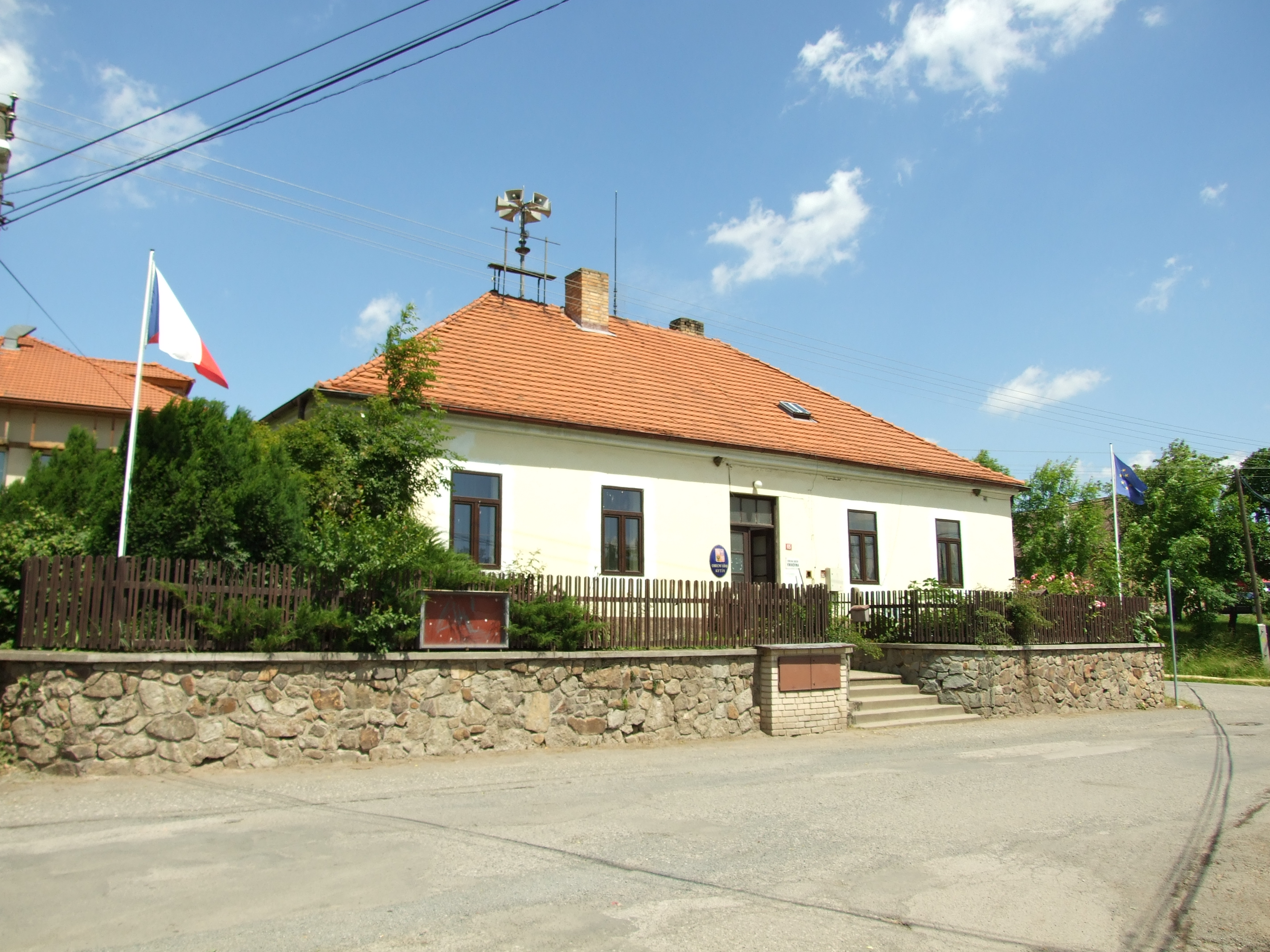 Town of Kytín and its surrounding nature in Central Bohemian region, CZhelp